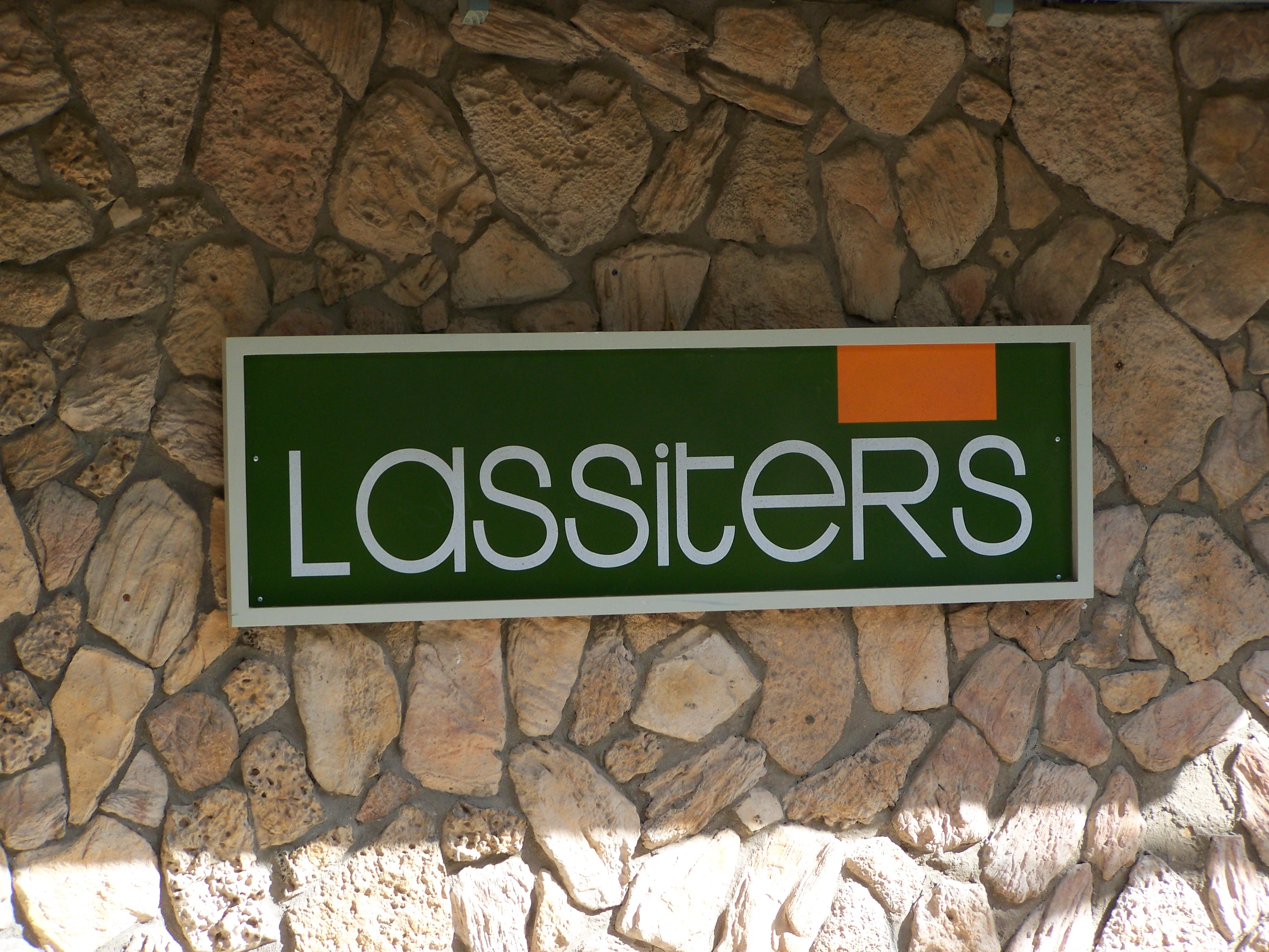 The Lassiters Hotel sign taken by Ellen Cross in 2009.